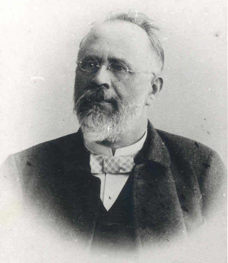 Johann Georg Waibel, Member of the Landtag of Vorarlberg (1890–1908) and mayor of Dornbirn (1869–1908).